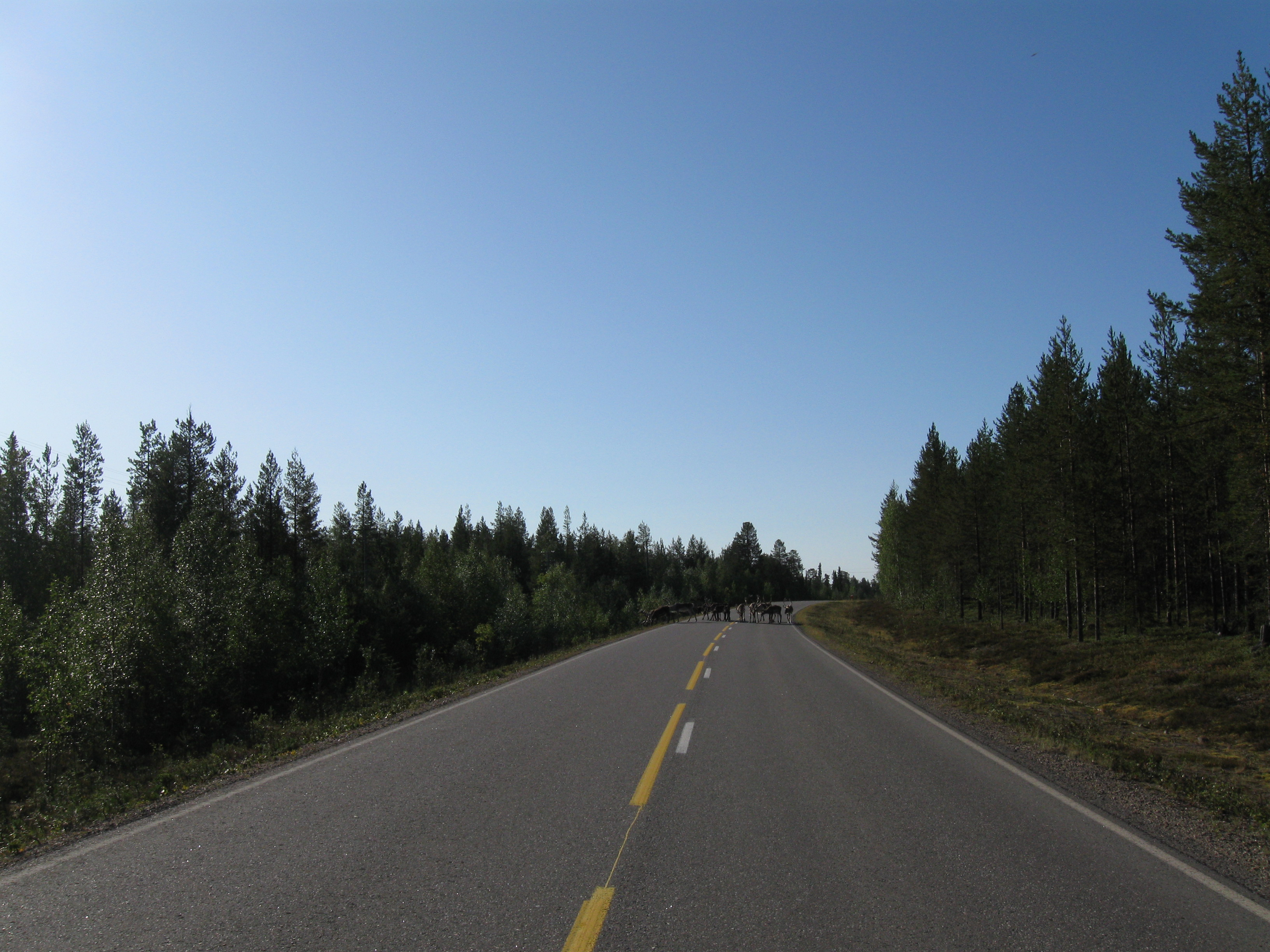 Reindeers on the regional road 967 in Savukoski, Finland, south of Hihnavaara towards Savukoski.